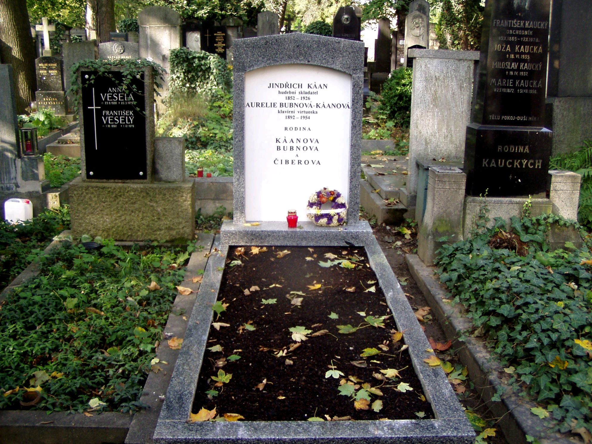 Grave of Jindřich Kàan in a Prague cemetery Malvazinky